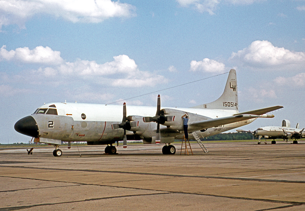 A U.S. Naval Air Reserve Lockheed P-3A Orion (BuNo 150514) of Patrol Squadron 68 (VP-68) at Naval Air Station Patuxent River, Maryland (USA), in May 1972. Note the Lockheed EC-121 in the background.